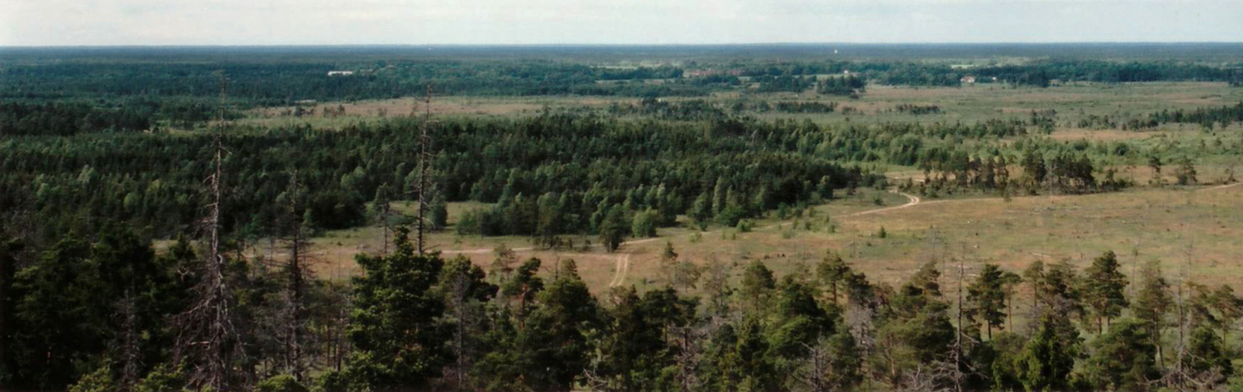 View from from the top of Torsburgen, Gotland, Sweden, towards northeast and the Baltic Sea.